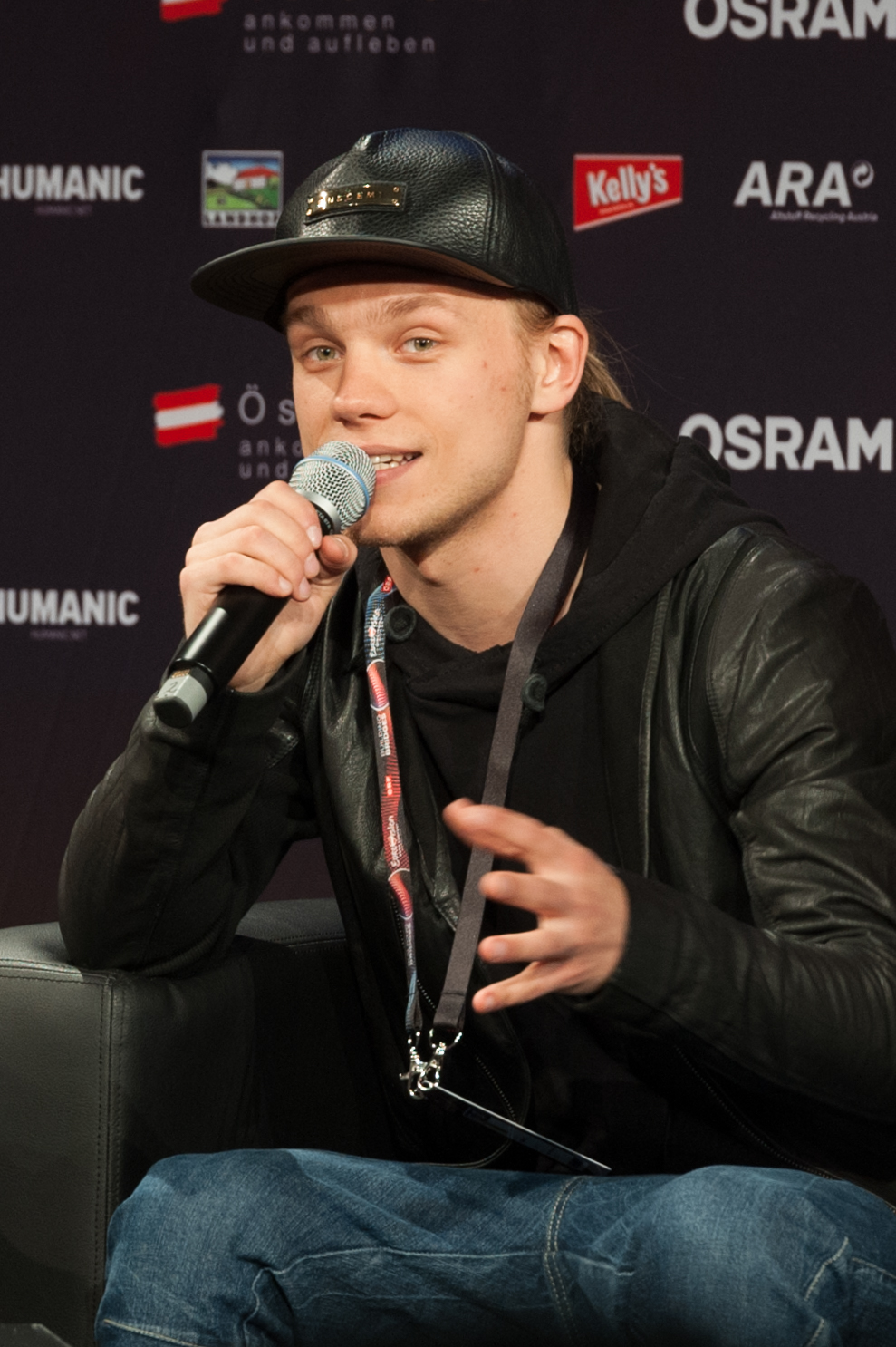 Eurovision Song Contest Vienna 2015: Eduard Romanyuta